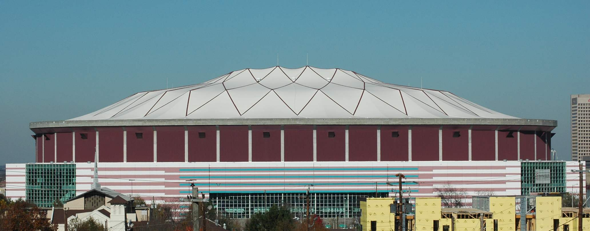 The south face of the Georgia Dome, a mutli-purpose sports arena in Atlanta, Georgia, home to the NFL's Atlanta Falcons. Taken by J. Glover (AUtiger), on Dec. 4, 2004 21:17, 12 December 2004 . . AUtiger . . 2064×809 (149,040 bytes)